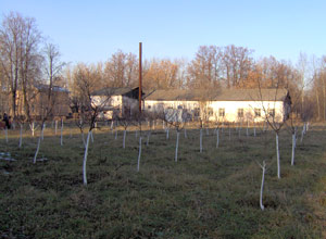 Вишнёвый сад в усадьбе Любимовка